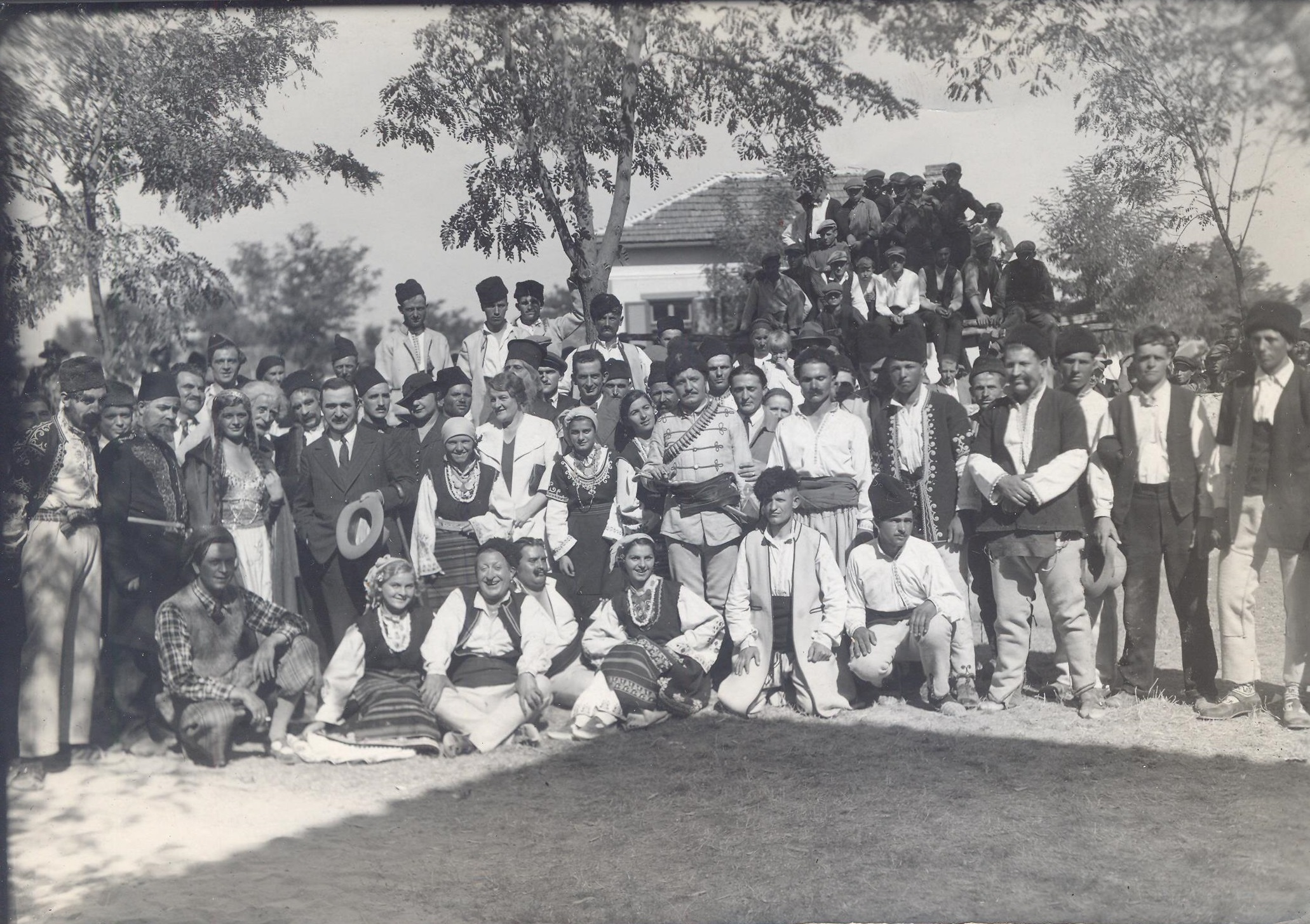 Bulgarian film “Gramada”, 1935.